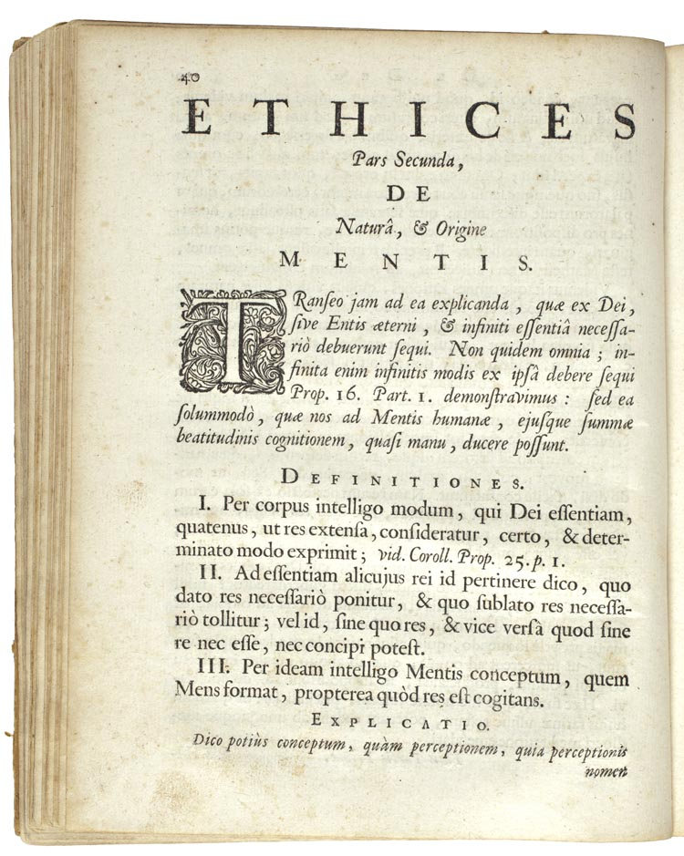 Benedictus de Spinoza: Ethices Pars secunda, De Naturâ & Origine mentis, 1677, page 40 from: Opera posthuma, quorum series post præfationem exhibetur (Amsterdam : printed by Israël de Paull, 1677)